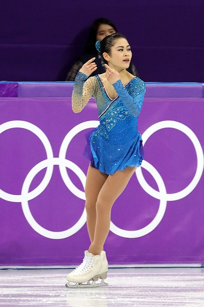 MIYAHARA Satoko JPN – 4th Place